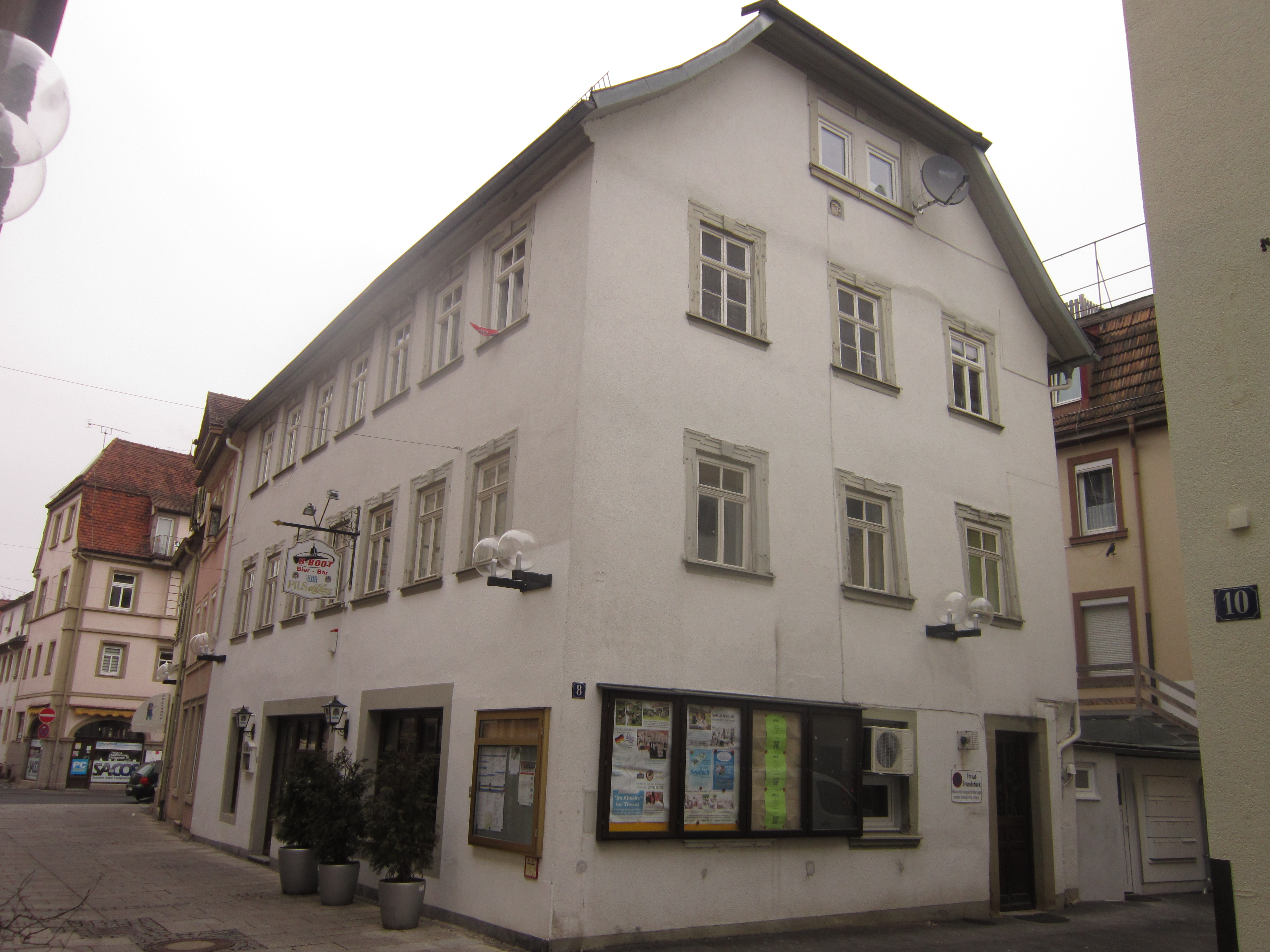 Building in the German spa town of Bad Kissingen in Lower Franconia (Bavaria) (Address: Weingasse 8).